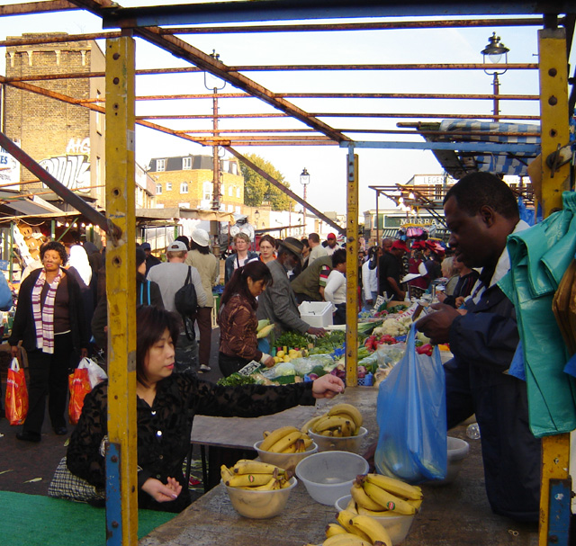 Ridley Road Market, Dalston, Hackney, London. 15 October 2005. Photographer: Fin Fahey